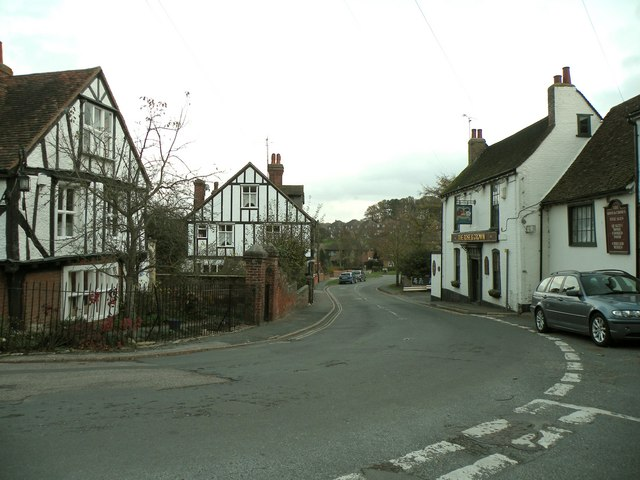 Part of The Street in Shorne